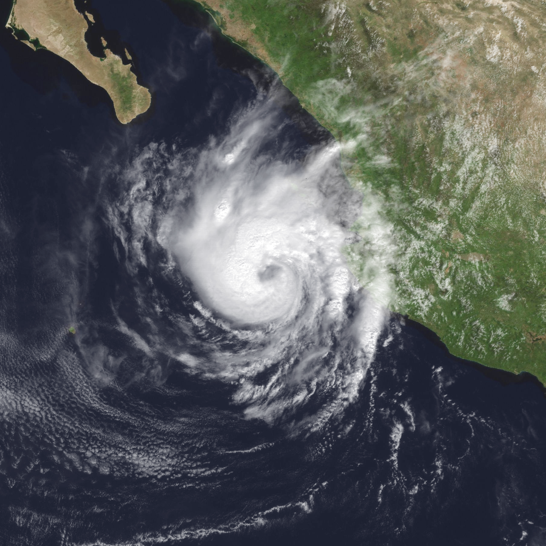 Hurricane Madeline as a newly-upgraded Category 1 hurricane just off the coast of Mexico on October 17, 1998